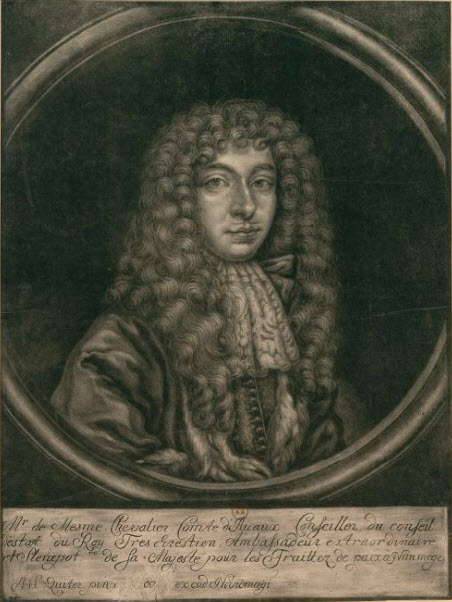 Portrait of Jean-Antoine de Mesmes (1640-1709) as an ambassador at Nijmegen